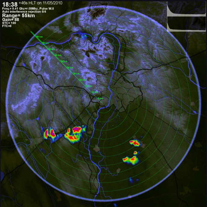 Measurement of the rainfall radar from website Időkép.hu in the area of Budapest-Nagytétény.